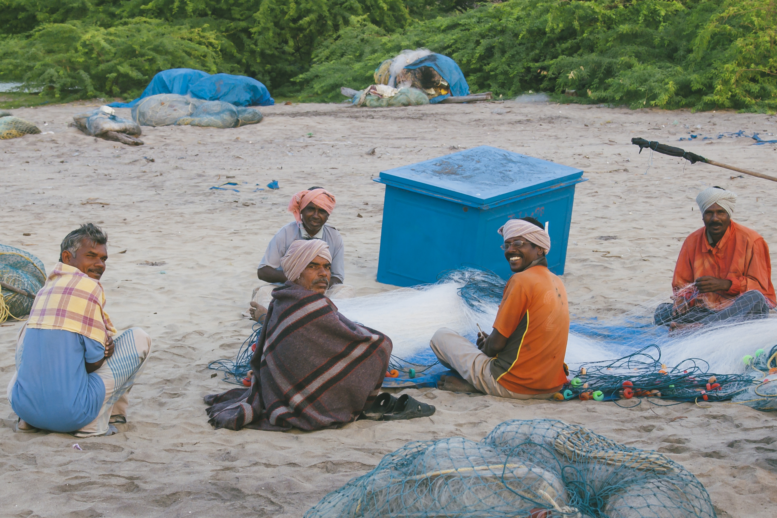 Fisherman preparing their nets at Nagapattinam Beach